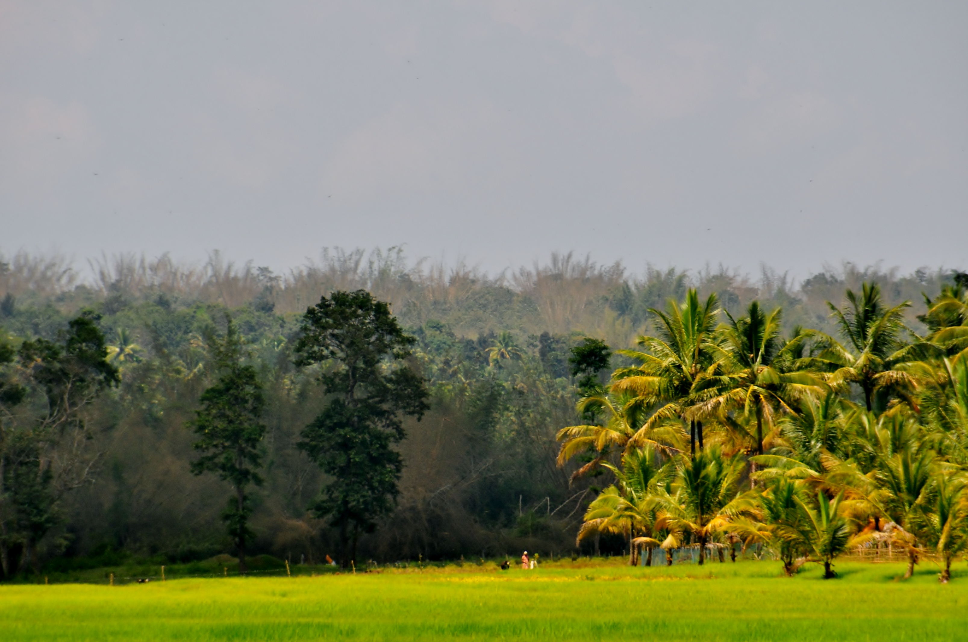 Beautiful landscape